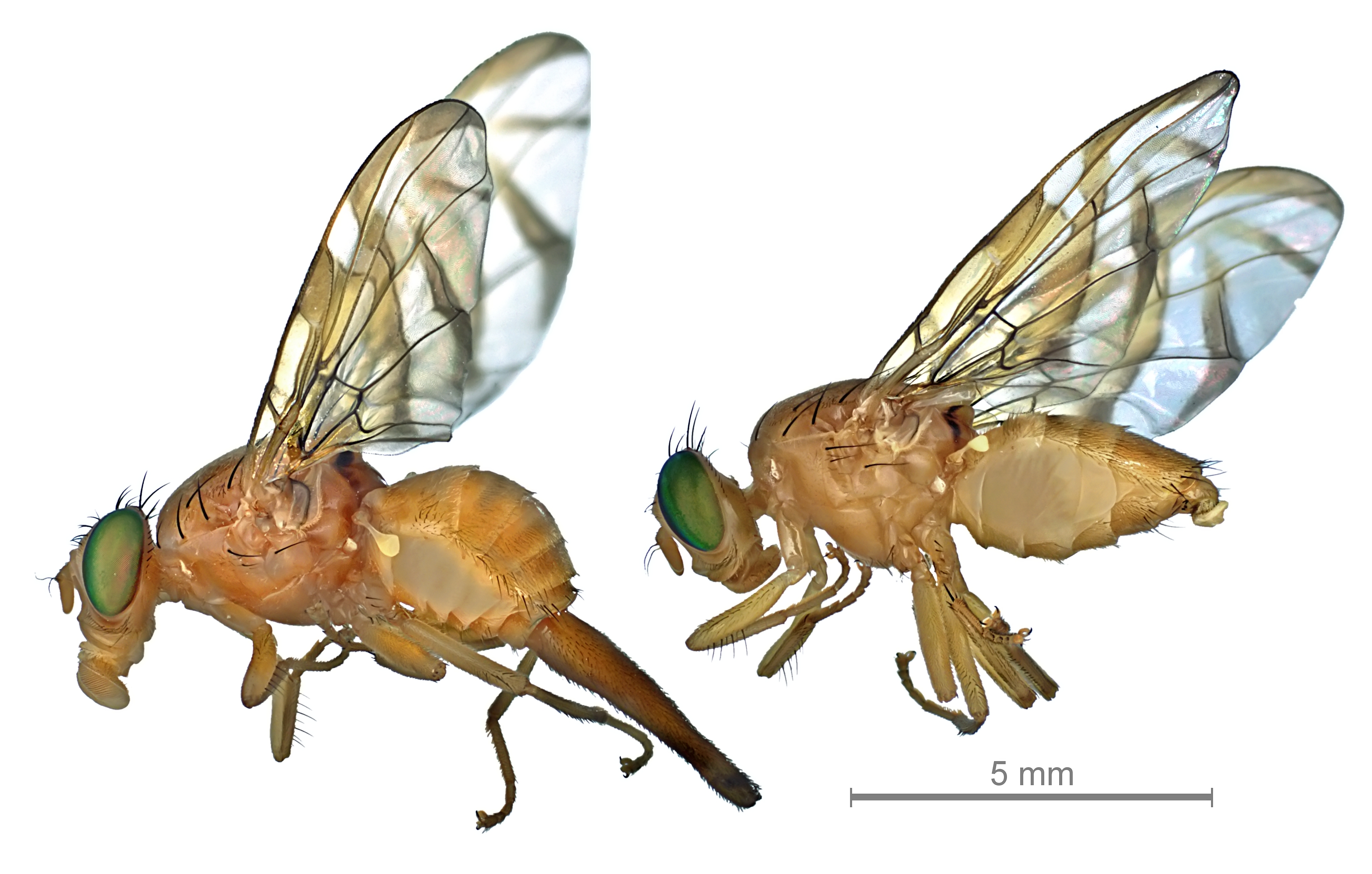 Anastrepha ludens (Diptera: Tephritidae) female and male, lateral view.